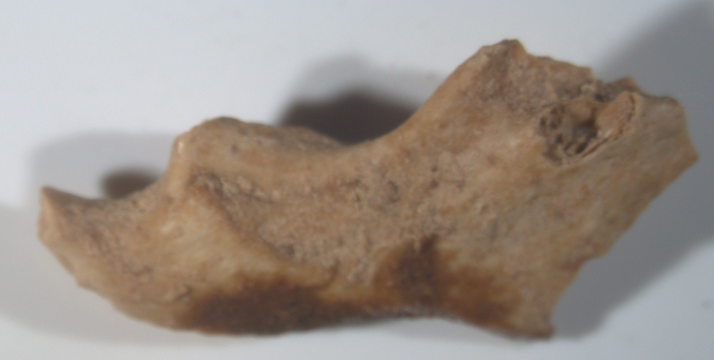 Mandible of the fossil oryzomyine rodent Agathaeromys praeuniversitatis from Seroe Grandi, Bonaire (Pleistocene), in labial view. Collection of the Netherlands Center for Biodiversity Naturalis.